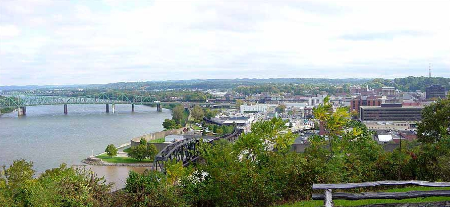 View of Parkersburg, West Virginia